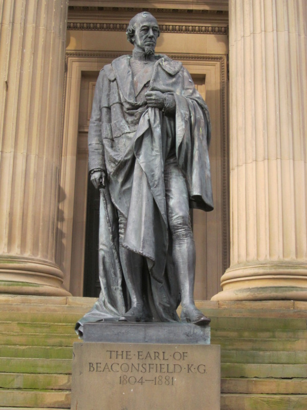 Earl of Beaconsfield statue by Charles Bell Birch, 1883, outside St. George's Hall, Liverpool.